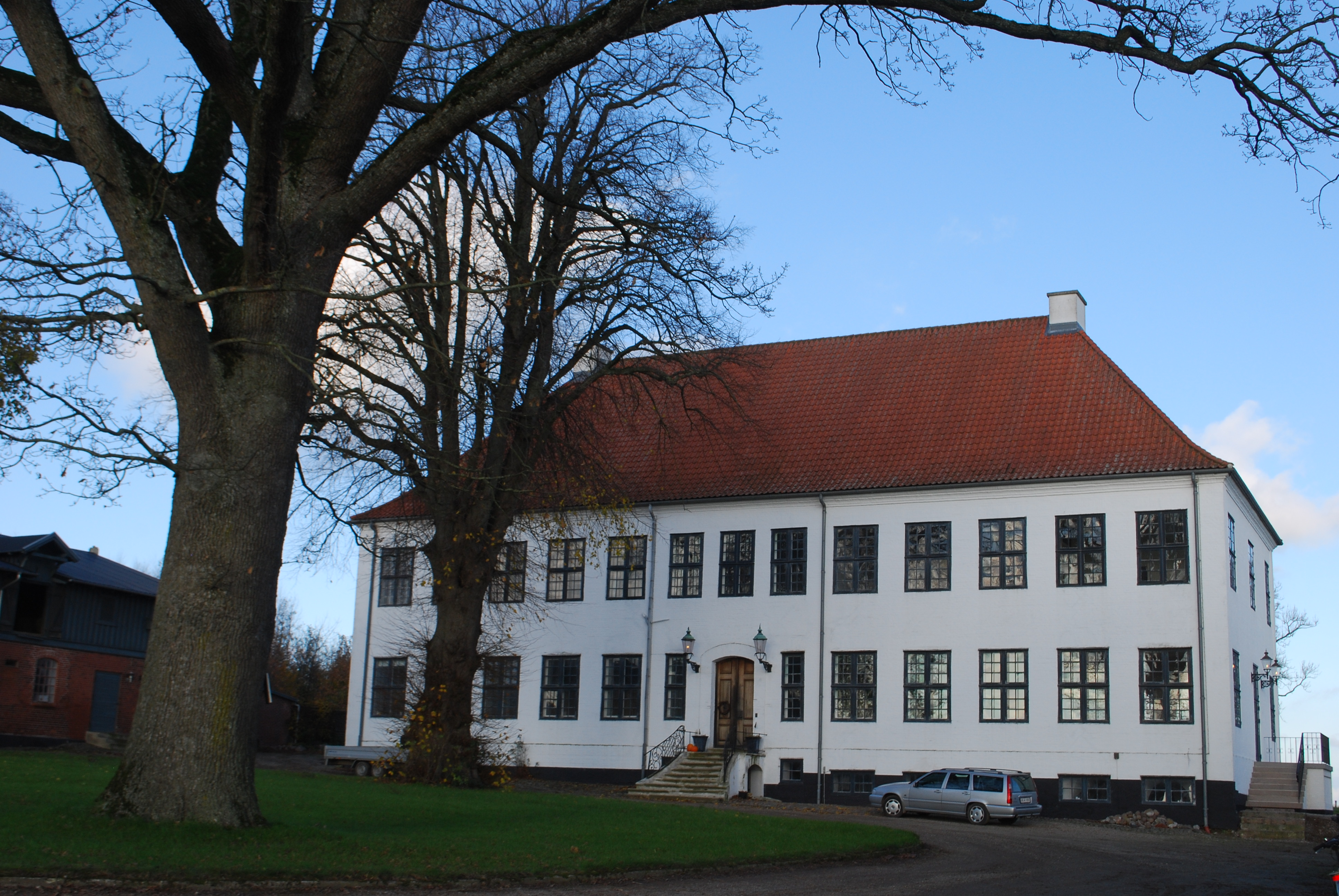 Ballegaard, Sundeved, Jylland, Denmark